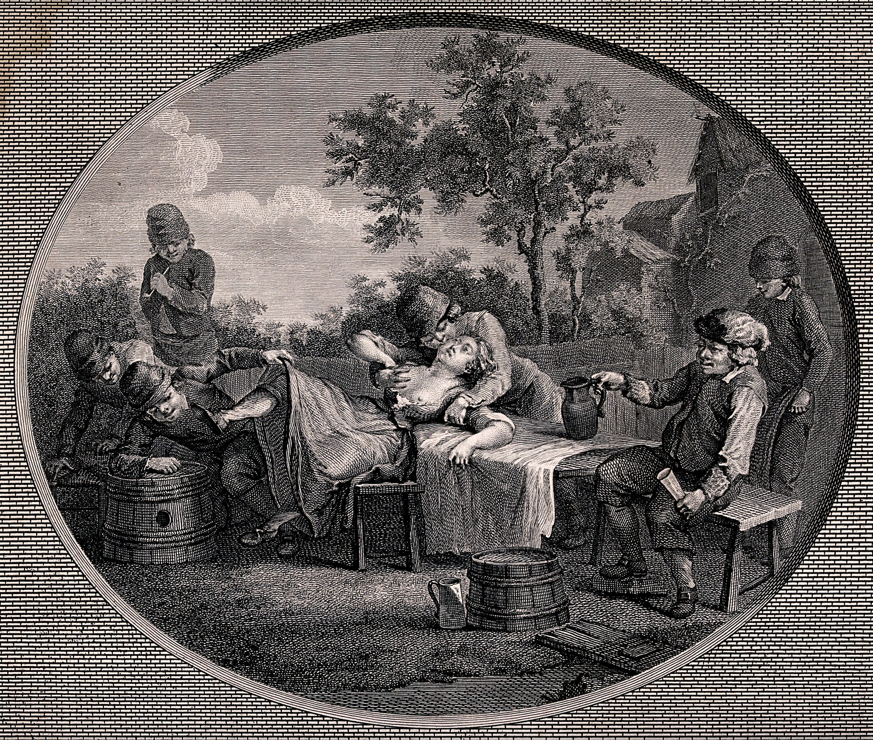 A scene showing the inevitable consequences of over-indulgence. Engraving by De Launey after Fryberg. Iconographic Collections